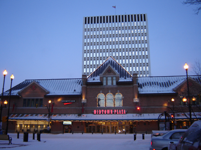 Midtown Plaza Central Business District , Core Neighbourhoods SDA, Saskatoon, Saskatchewan, Canada